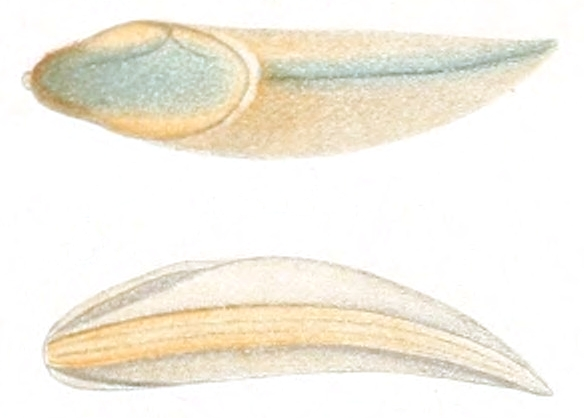 colored drawing of slug Boettgerilla pallens